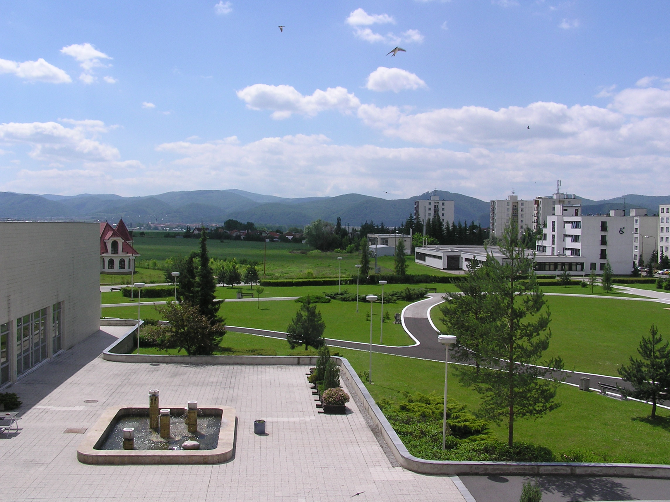 Areal NRC